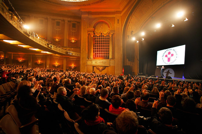 Heart of St Kilda Concert audience at the Palais Theatre with Brian Nankervis on stage, Melbourne, Australia 2011.